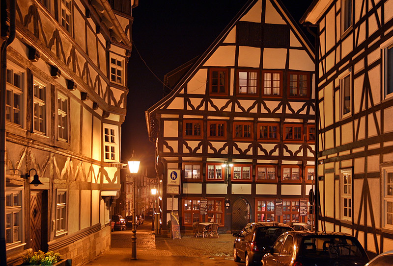 Houses in Witzenhausen, Germany.